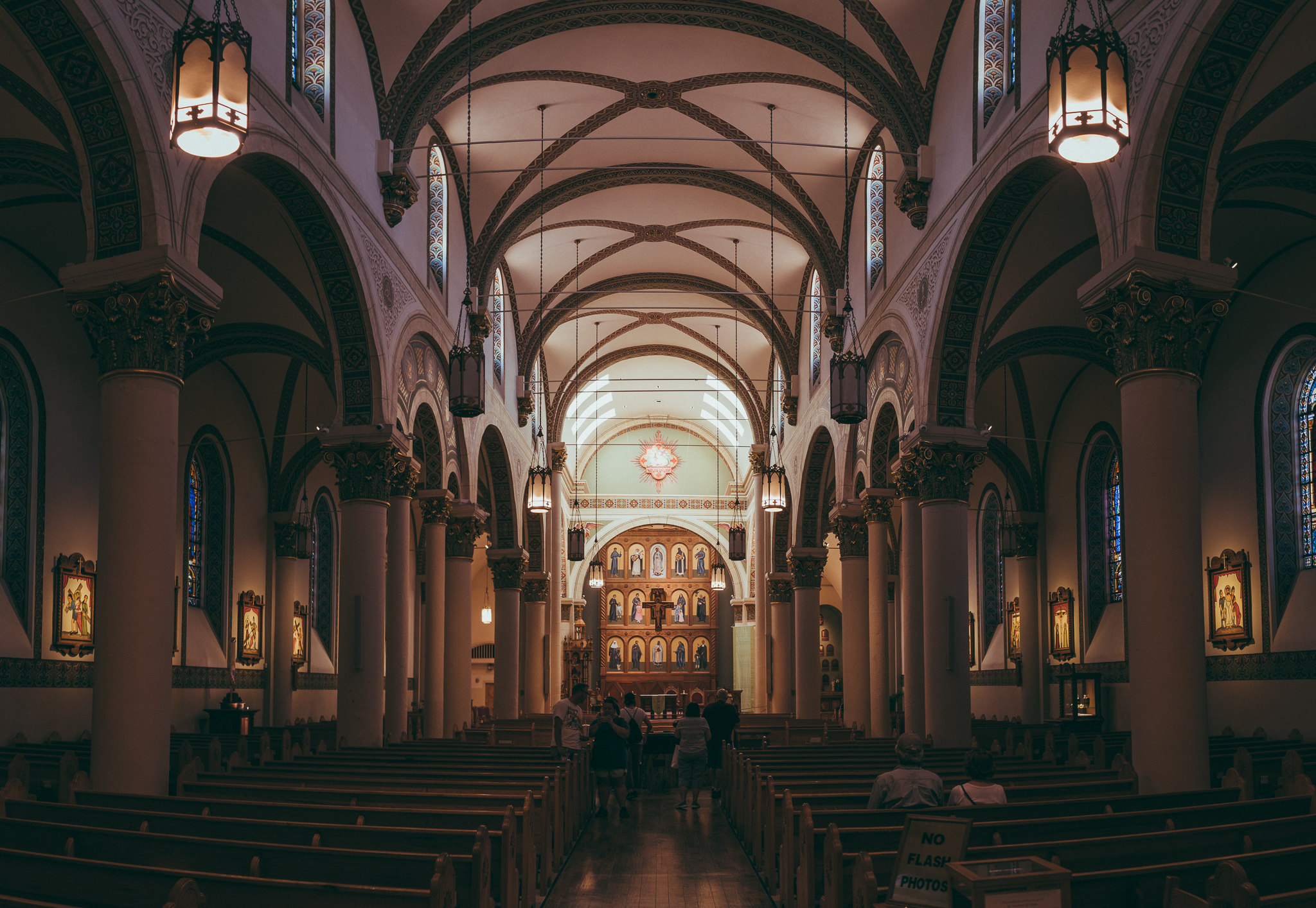 Taken when I was on vacation with family in Santa Fe. The cathedral is built in a French Romanesque style and is own of the more beautiful churches I’ve visited over my lifetime. I’m in college studying architecture preservation and hope to one day aid in the efforts to keep this church intact for years to come!